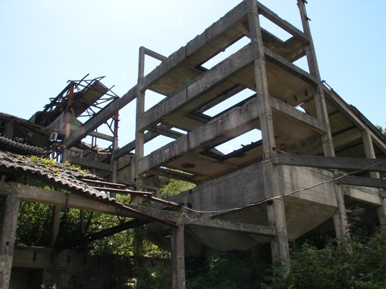 Picture of the old Mill at the Hemerdon Ball Mine taken by user of Wikipedia account. The picture is released into Public Domain by the author.